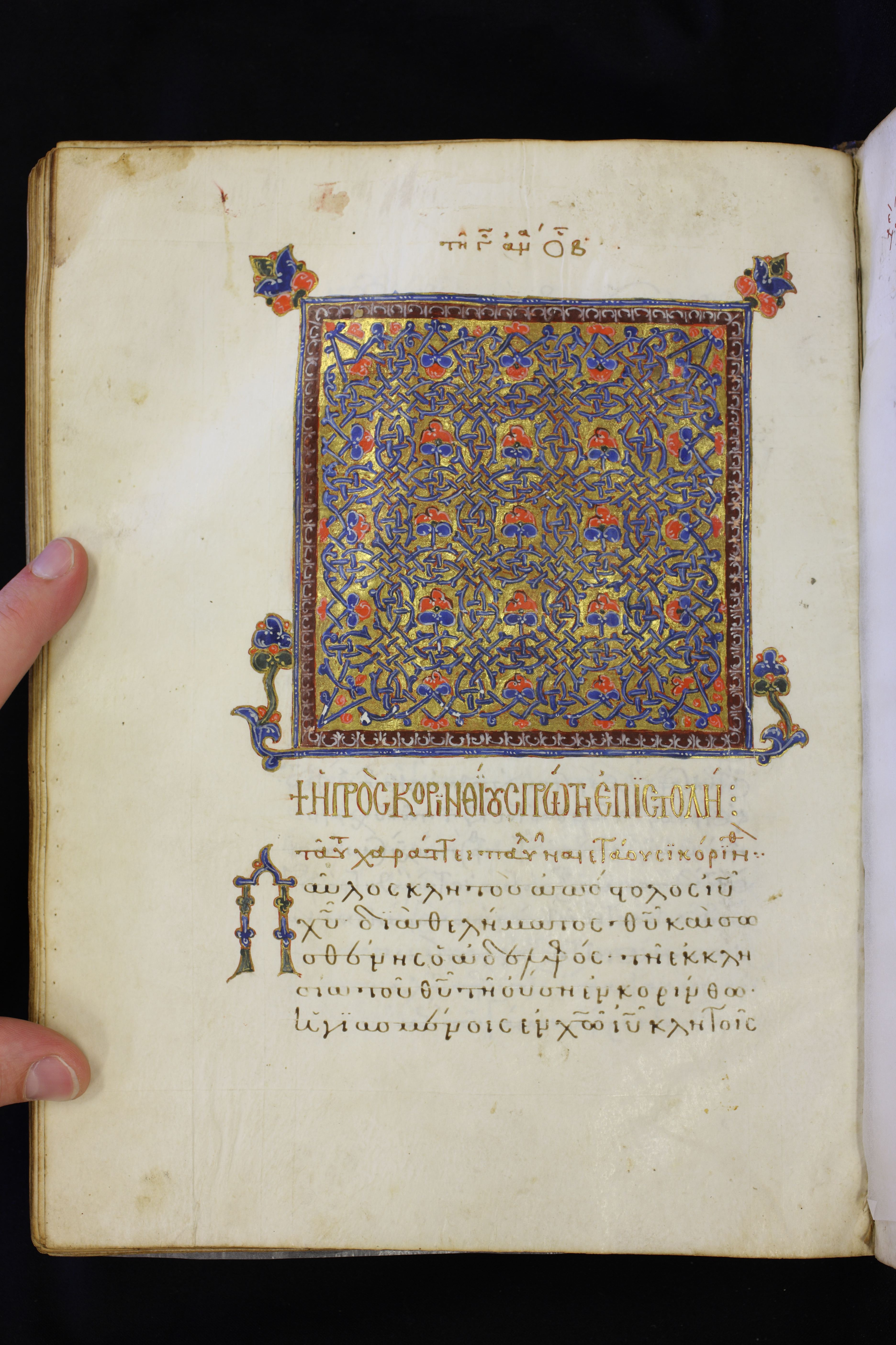 folio 150 recto of the codex, with the beginning of the 1. Epistle to the Corrinthians